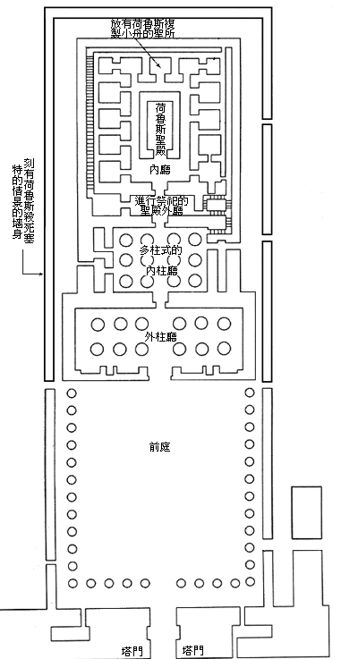 Map of the Temple of Edfu, (Egypt). Trad. Chinese Edition.